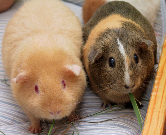 Cropped image of two guinea pigs eating